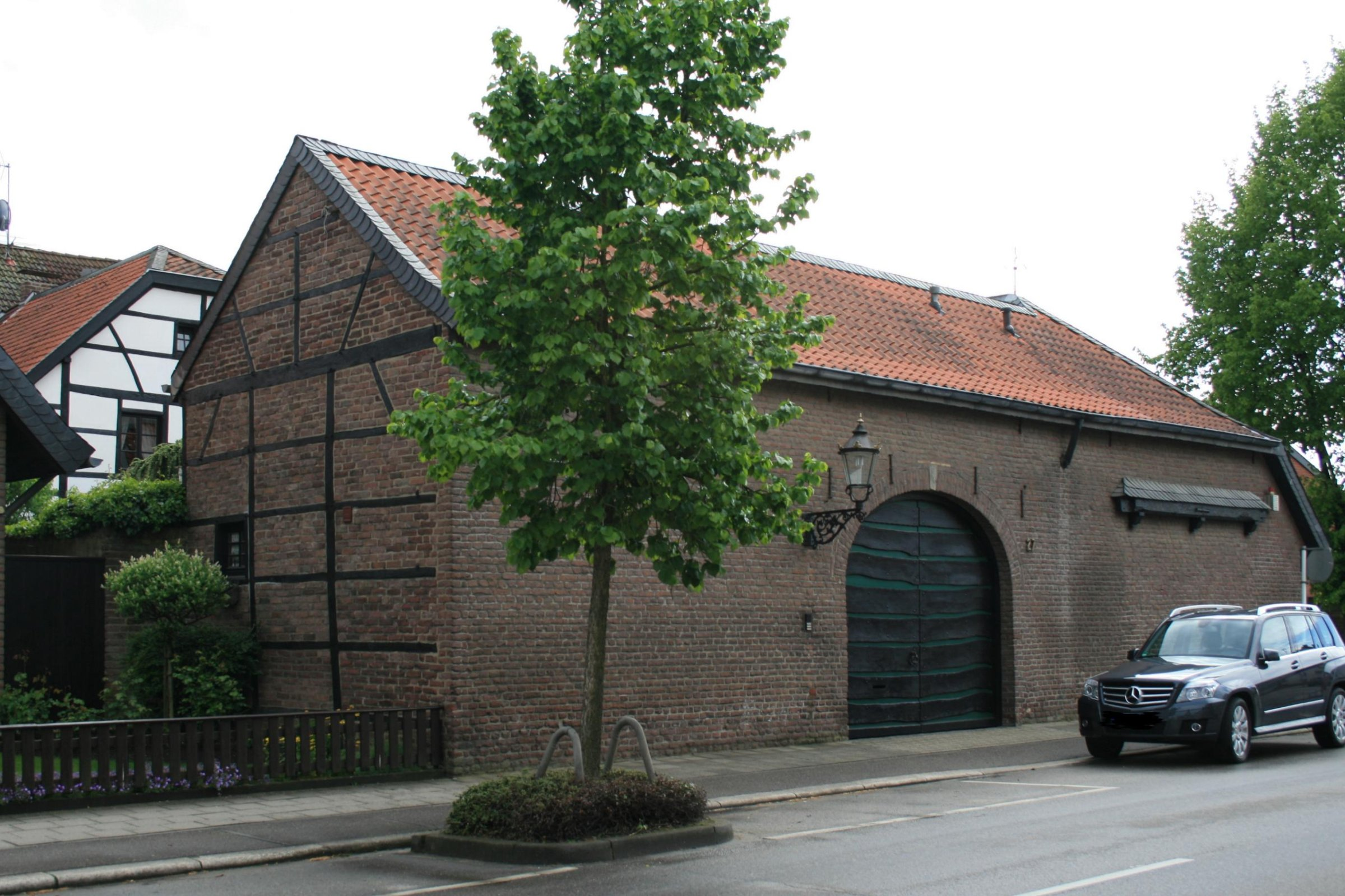 Cultural heritage monument No. T 001 in Mönchengladbach